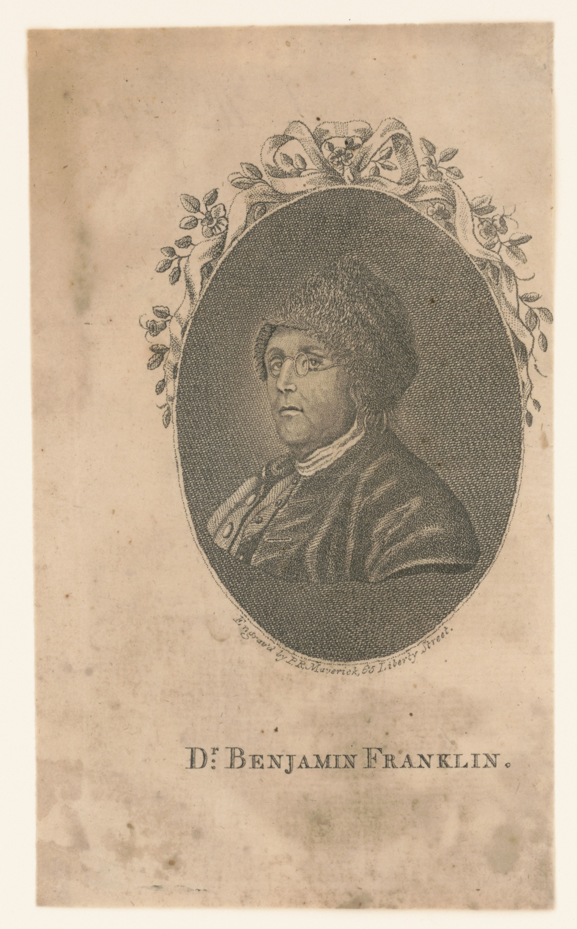 Title: Dr. Benjamin Franklin Abstract: Print shows Benjamin Franklin, head-and-shoulders portrait, wearing fur hat and spectacles, facing left, in oval tied with a ribbon at top and festooned with ivy. Physical description: 1 print : engraving. Notes: engrav'd by P.R. Maverick, 65 Liberty Street.; Title from item.